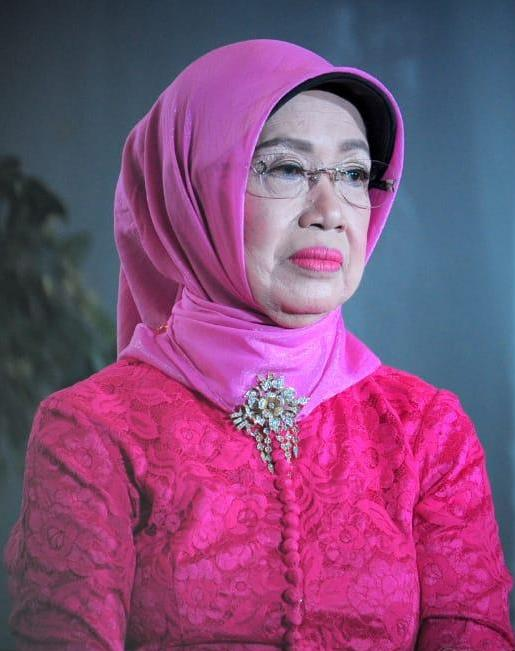 Sudjiatmi, mother of Joko Widodo, President of the Republic of Indonesia.